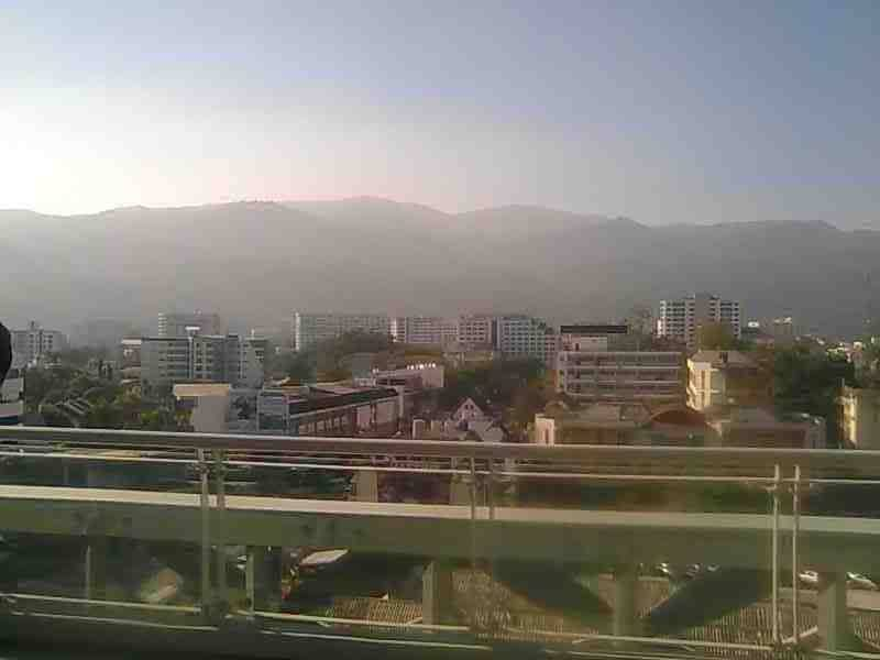 View from 5th Floor of Maya